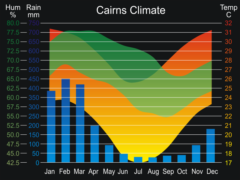 Graphs of Caims climate, Australia